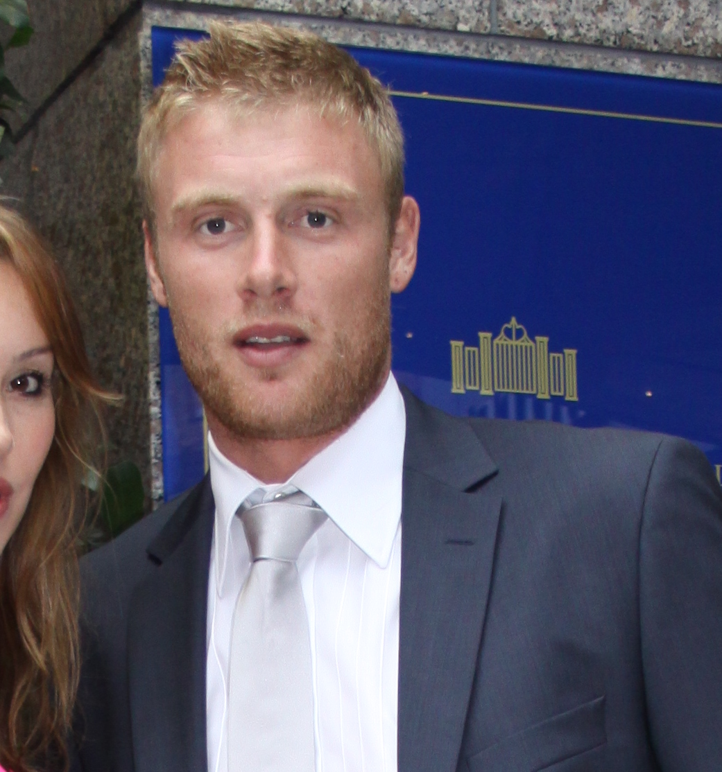 Freddie Flintoff out side the Royal Garden Hotel London